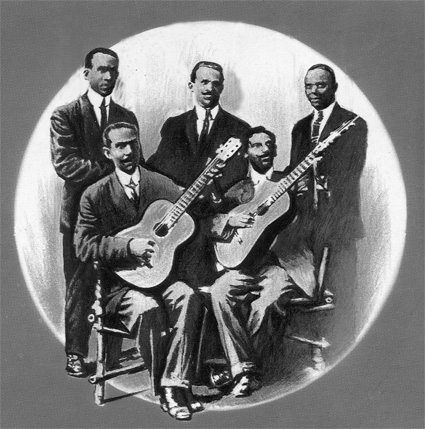 photo of Pepe Sánchez and Emiliano Blez with three singers 'Quinteto de Pepe Sánchez'